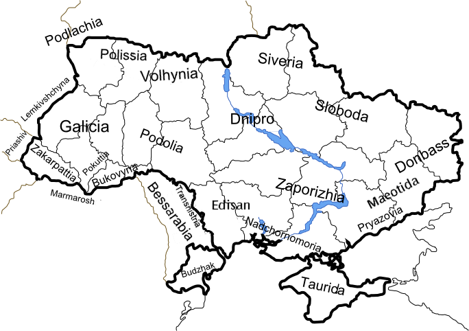 Map of Ukrainian historical regions and historical regions around Ukraine. The source code of this SVG is valid. This vector image was created with Inkscape, and then manually edited.